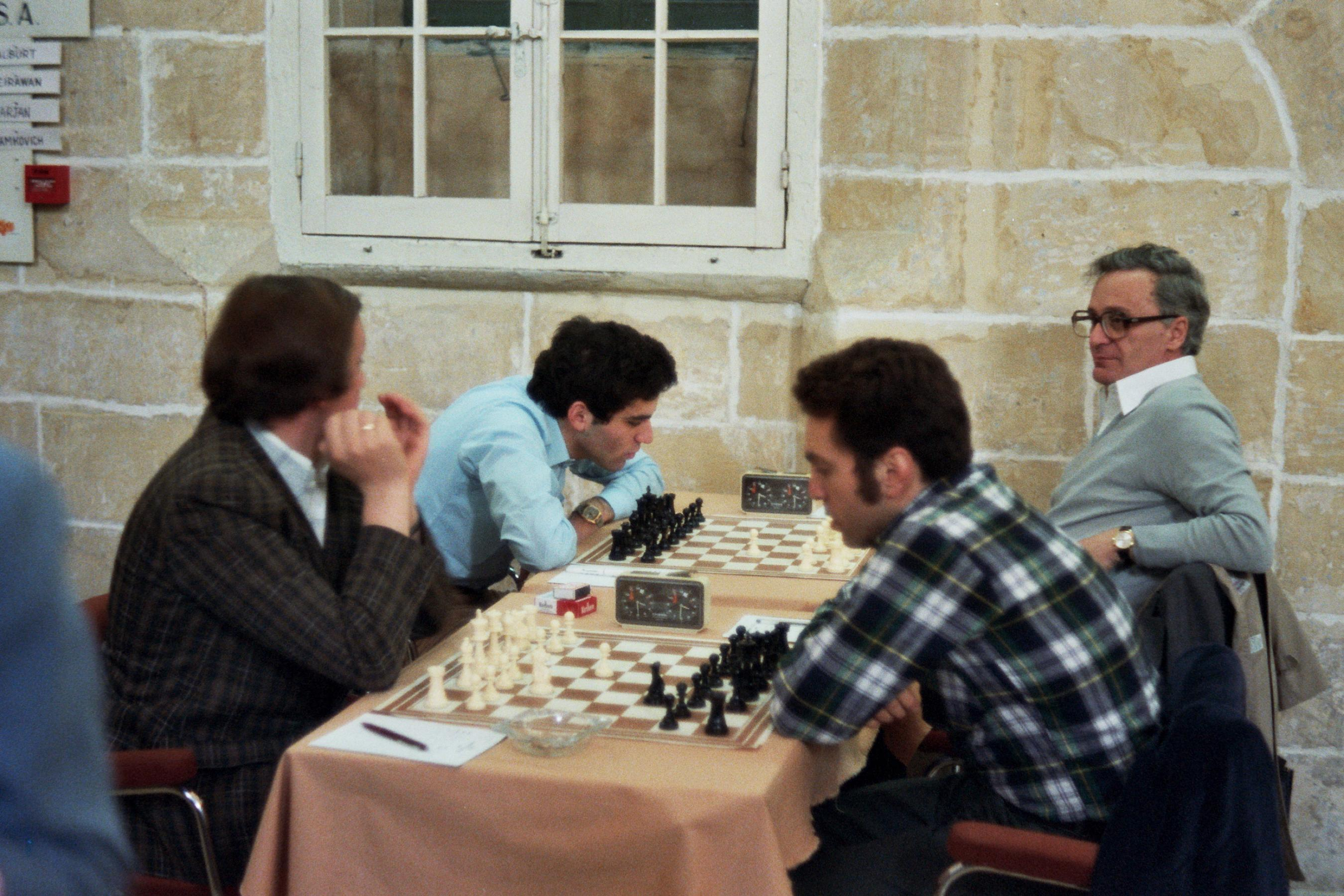 USR - Olympic Champion of men (USSR - USA, boards 3 and 4: Y. Balashov - J. Tarjan, G. Kasparov - L. Shamkovich), Chess Olympiad 1980 in Valetta auf Malta, Photographer Gerhard Hund.